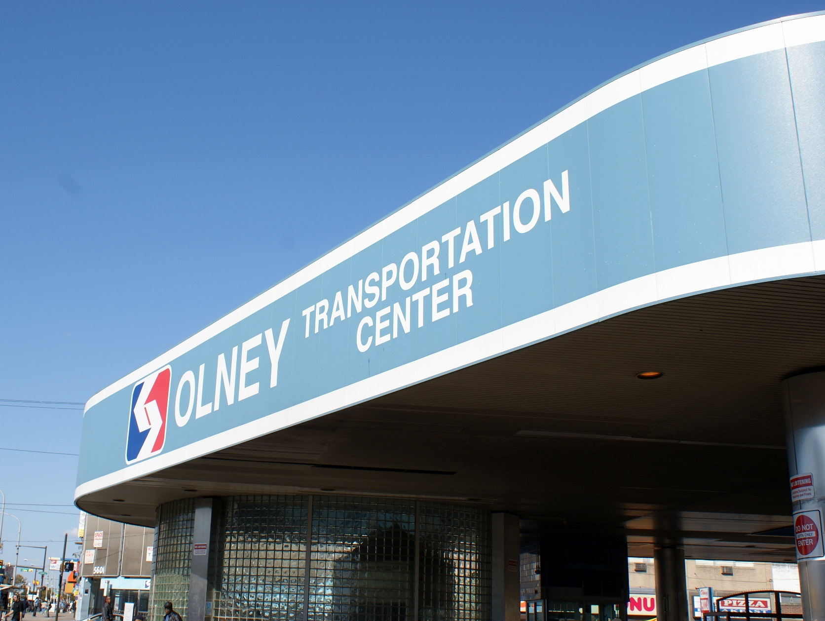 The Olney Transportation Center, 5600 N. Broad St.